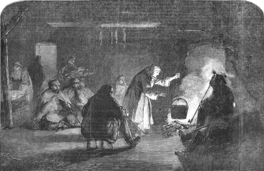 Interior of a Wallachian hut